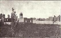 Ruins of Goolpashan, one of the richest Assyrian towns of Urmia. Destroyed prior to the arrival of the Mountain Assyrians.